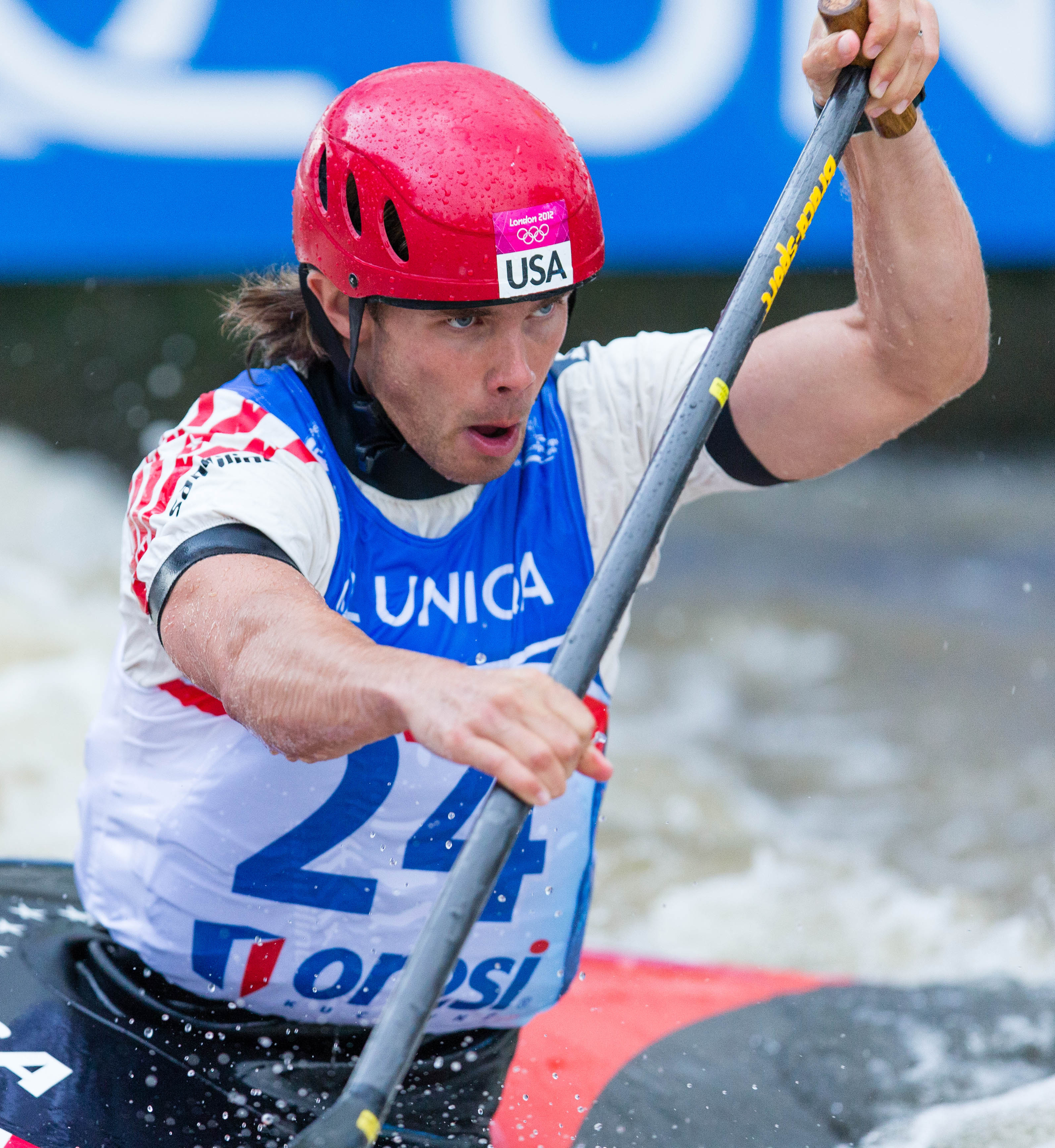 Casey Eichfeld at the 2013 Canoe Slalom World Championships